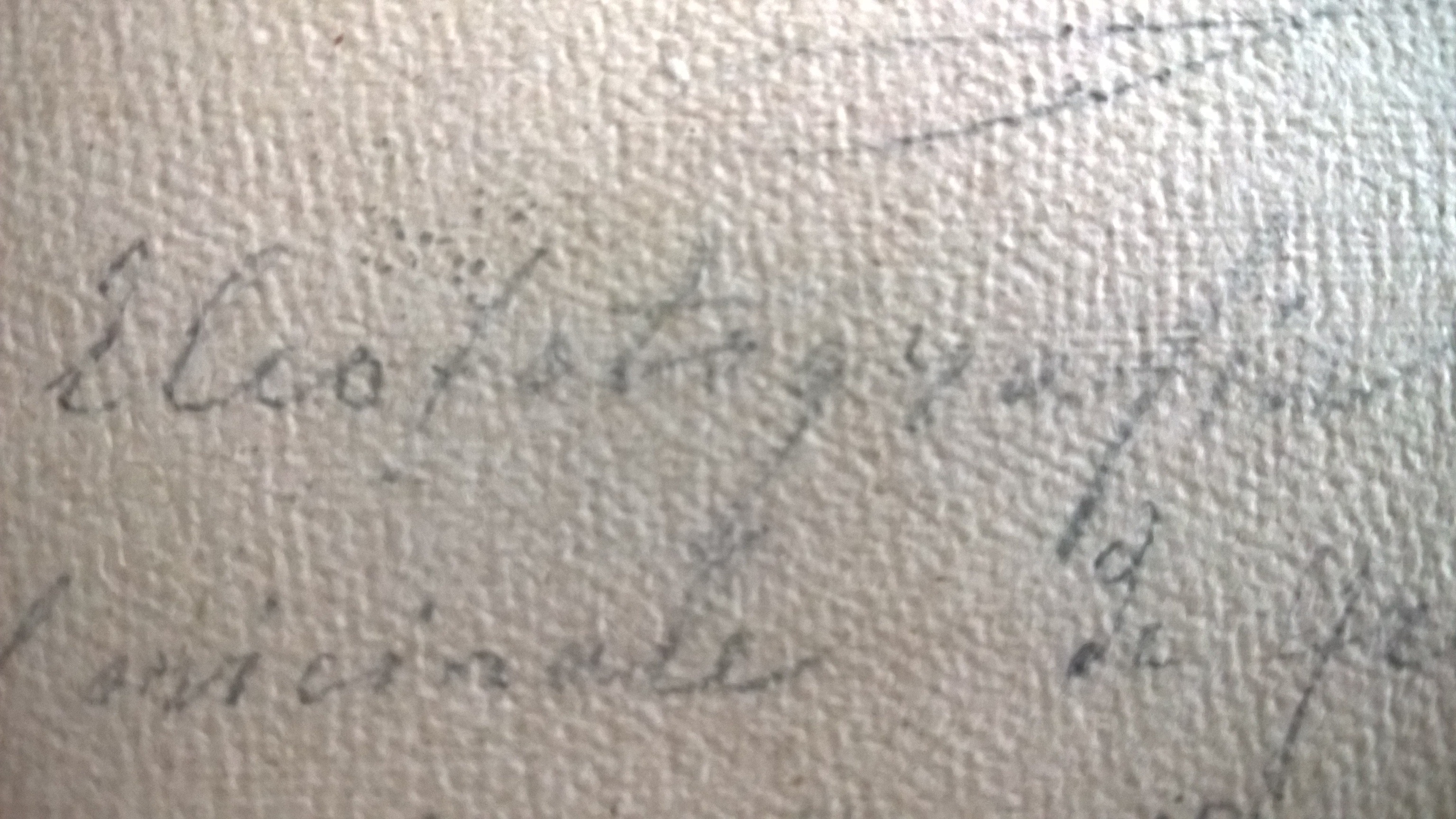 D.Dobrovich,"Eleofotografia"-Signature from tag